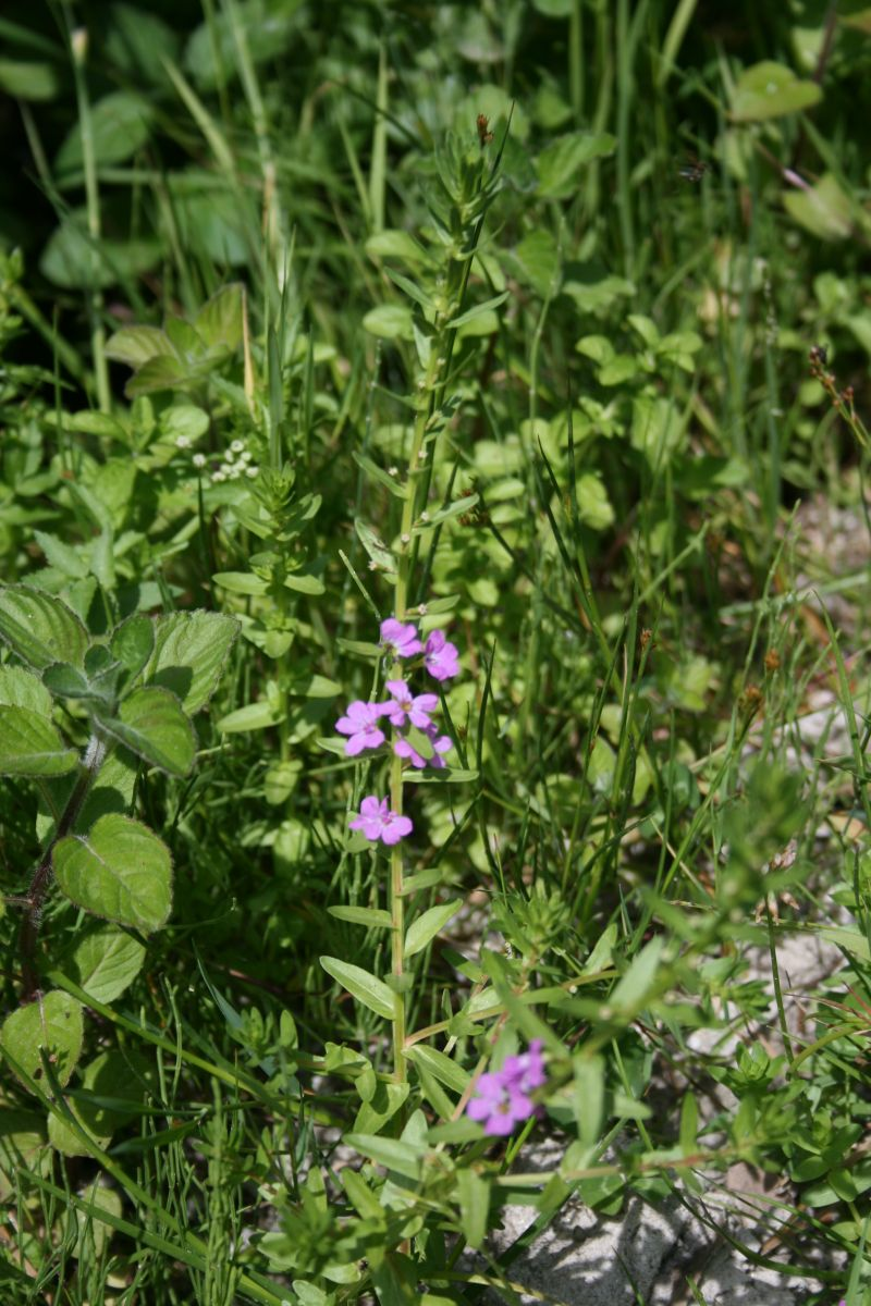 Lythrum junceum, Blutweiderichgewächse (Lythraceae) - Italien/Italia/Italy: Kalabrien/Calabria, Prov. Reggio Calabria, Aspromonte, bei San Peri, SSE Scilla